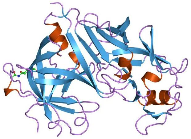 Cartoon representation of the molecular structure of protein registered with 2ren code.